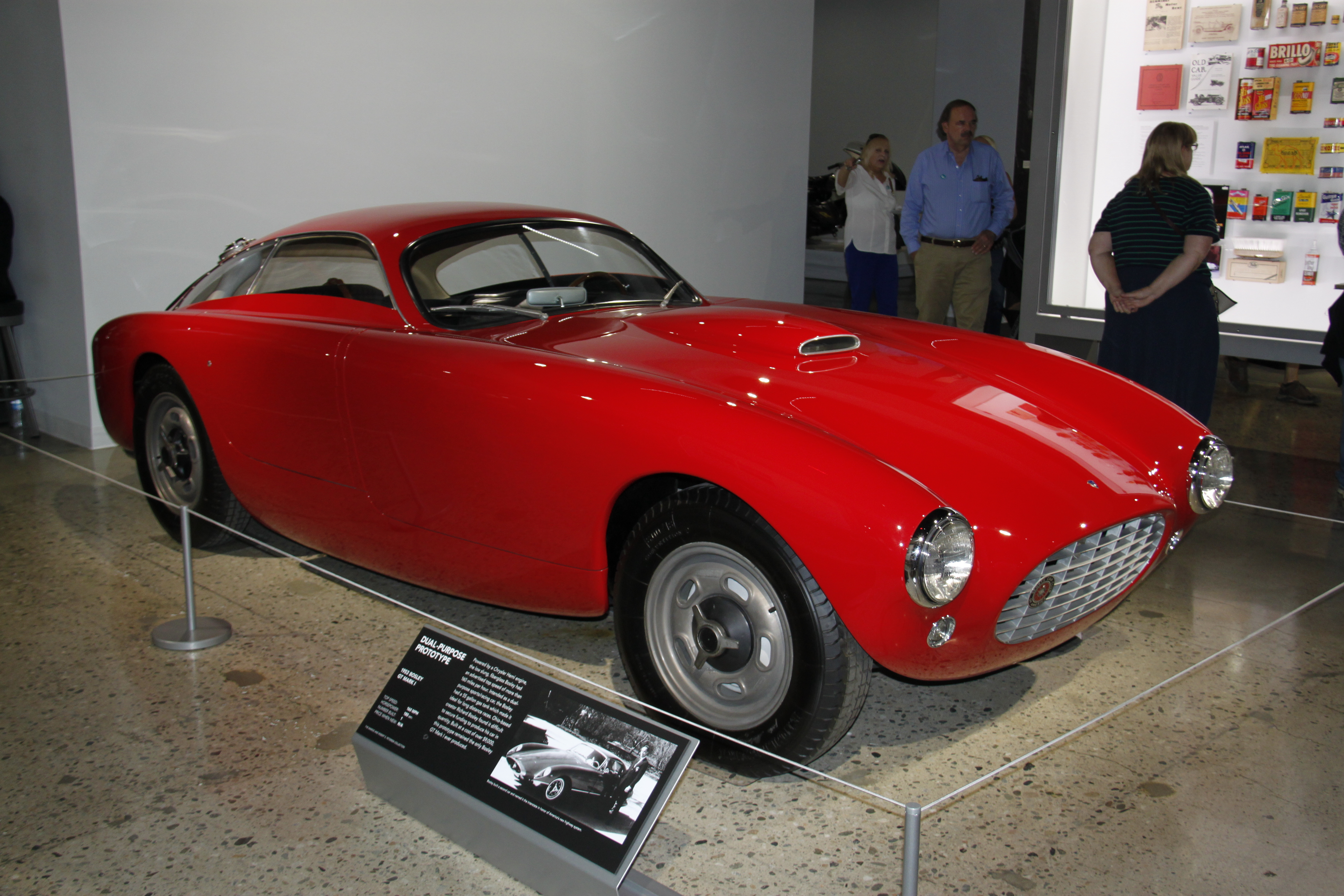 1953 Bosley GT Mark I at the Petersen Automotive Museum, Los Angeles